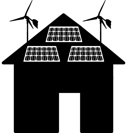 Microgeneration is the small-scale generation of heat and electric power by individuals, small businesses and communities to meet their own needs, as alternatives or supplements to traditional centralized grid-connected power